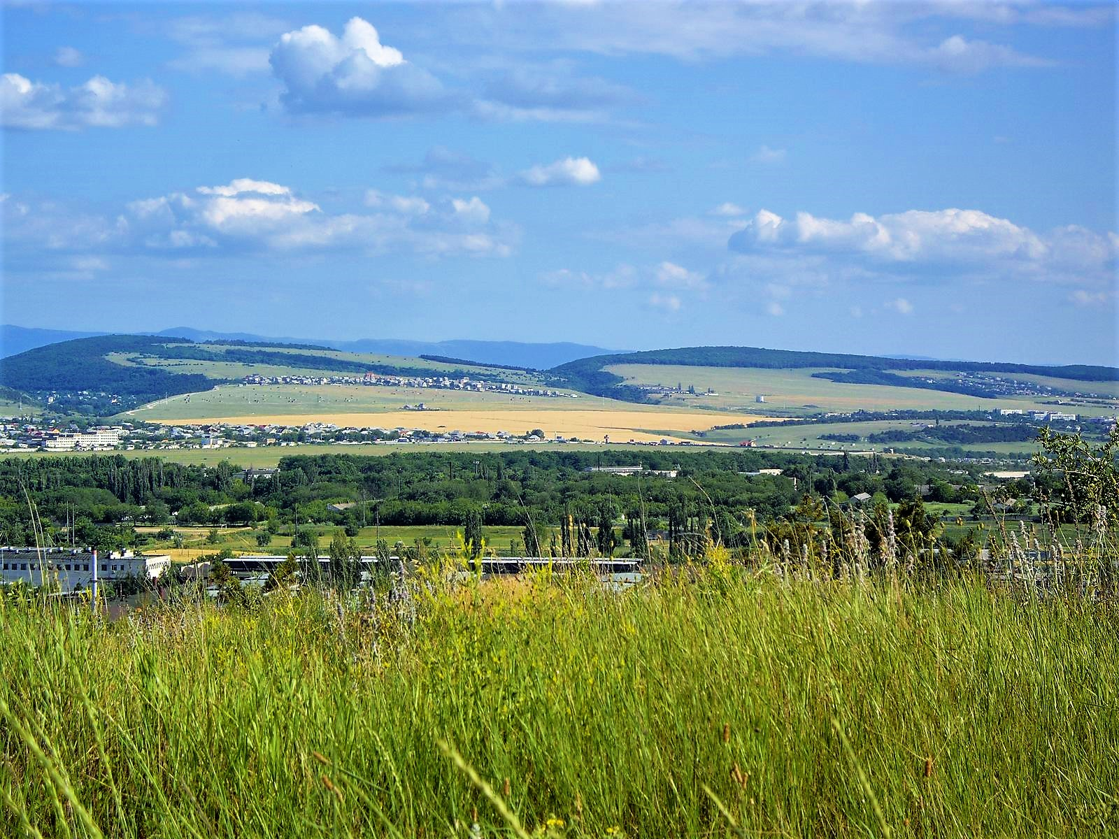 View from The Third ridge to The Second ridge. At background - The Main ridge of Crimean mountains. In front The Second ridge - Zavodskoye Airfield at border of Simferopol